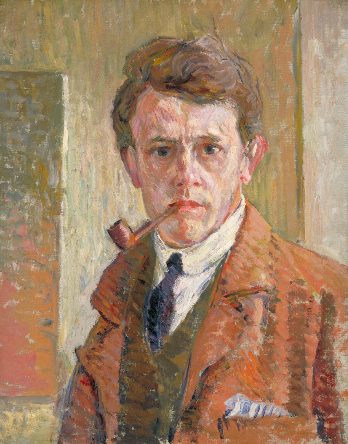 Self-Portrait by J.B. Manson, Presented by D.C. Fincham 1938